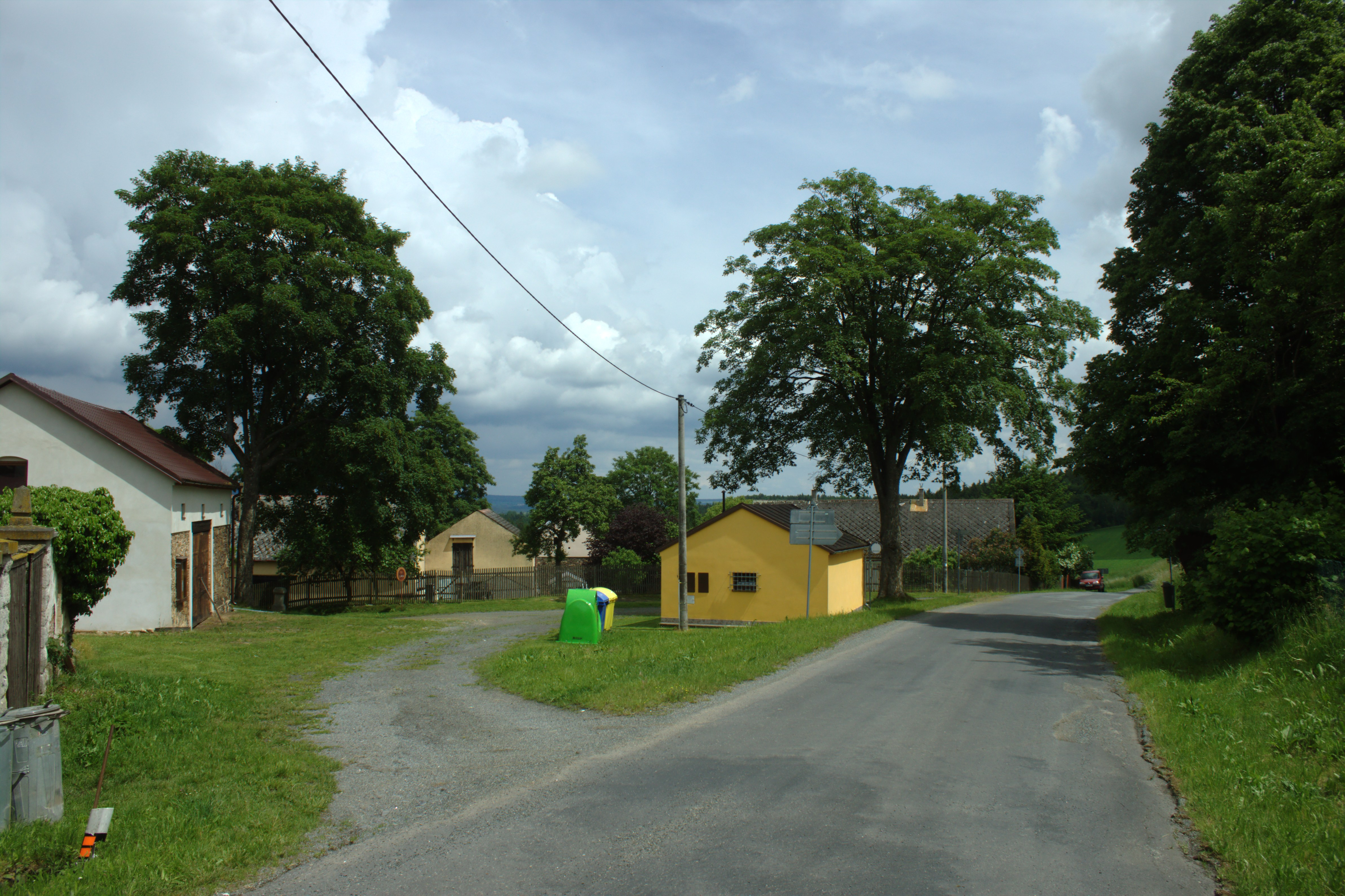 Main road in the village of Pačín in Karlovy Vary Region, CZ